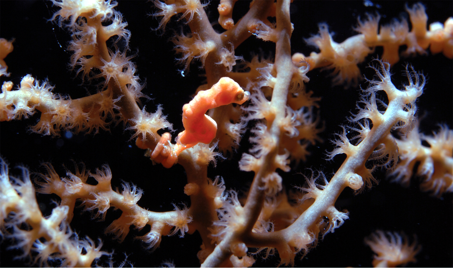 A rare occurrence, Hippocampus denise on Muricella sp. 2 (RMNH Coel. 39873) at Raja Ampat (photo F.R. Stokvis).